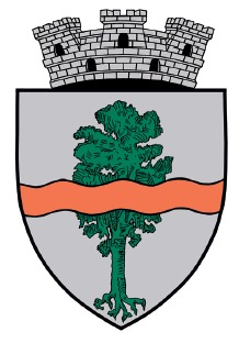 Coat of arms of Pucioasa township, Dâmbovița County, Romania